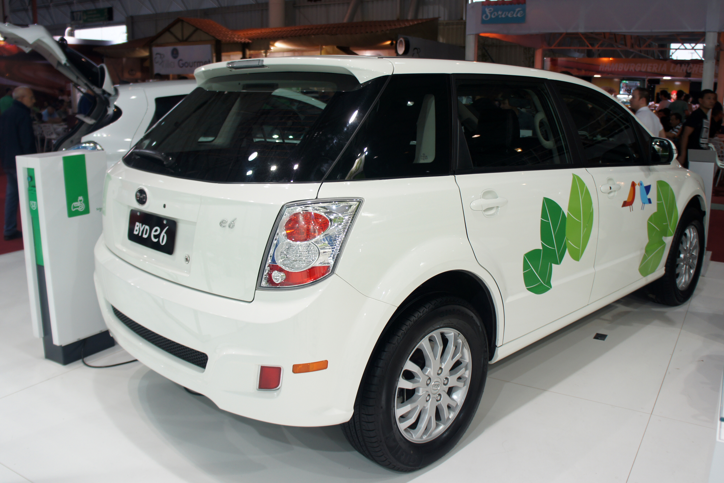 BYD e6 all-electric car exhibited at the Salão Internacional do Automóvel de São Paulo 2014, Brazil